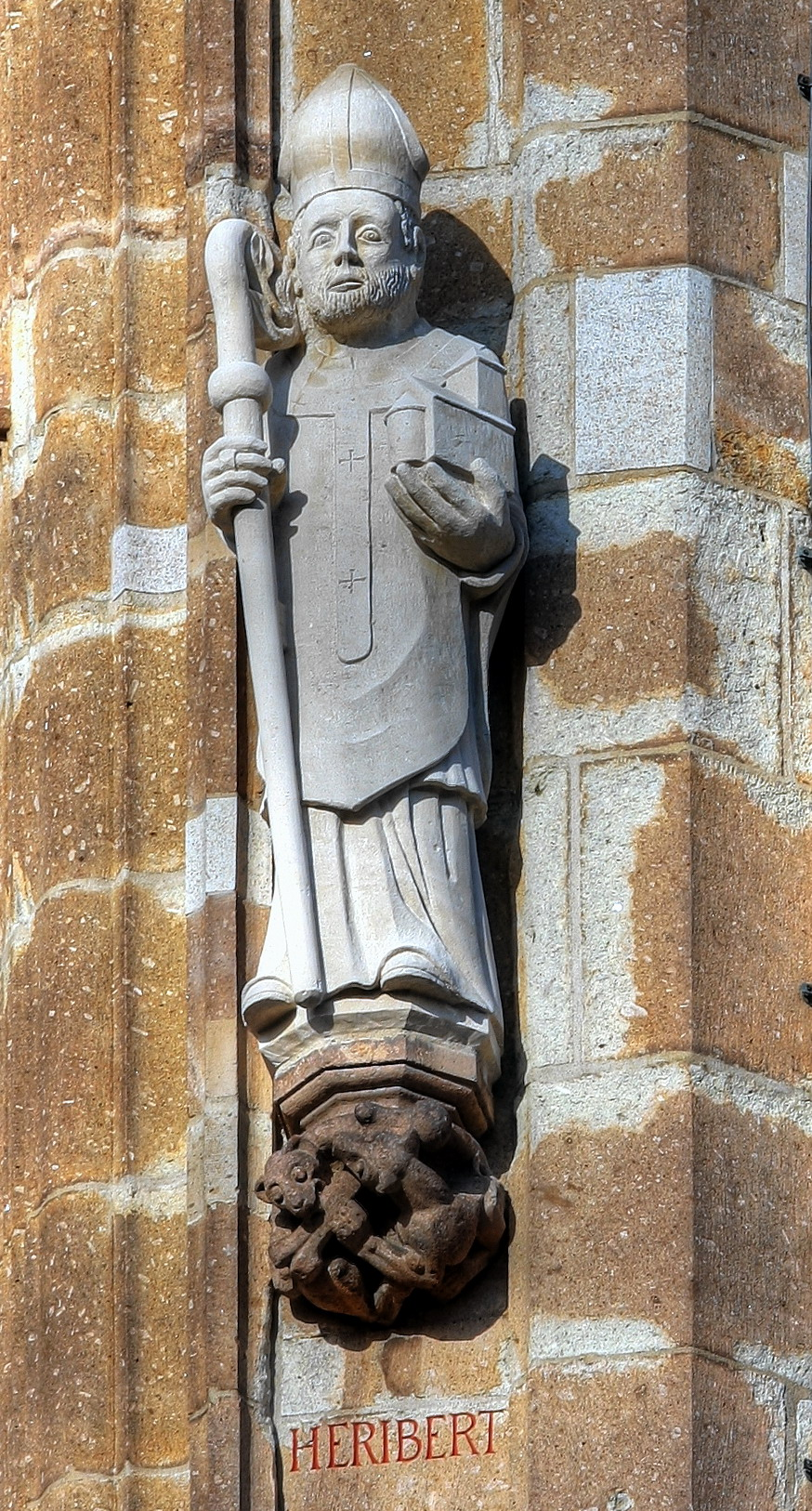 View of the statue of Heribert of Cologne (c 970 - 1021), archbishop of Cologne and Roman Catholic saint. Statue sculpted by Friedrich Lindenthal. Corbel sculpted by Herbert Rausch ("Two dogs fighting for a bone")